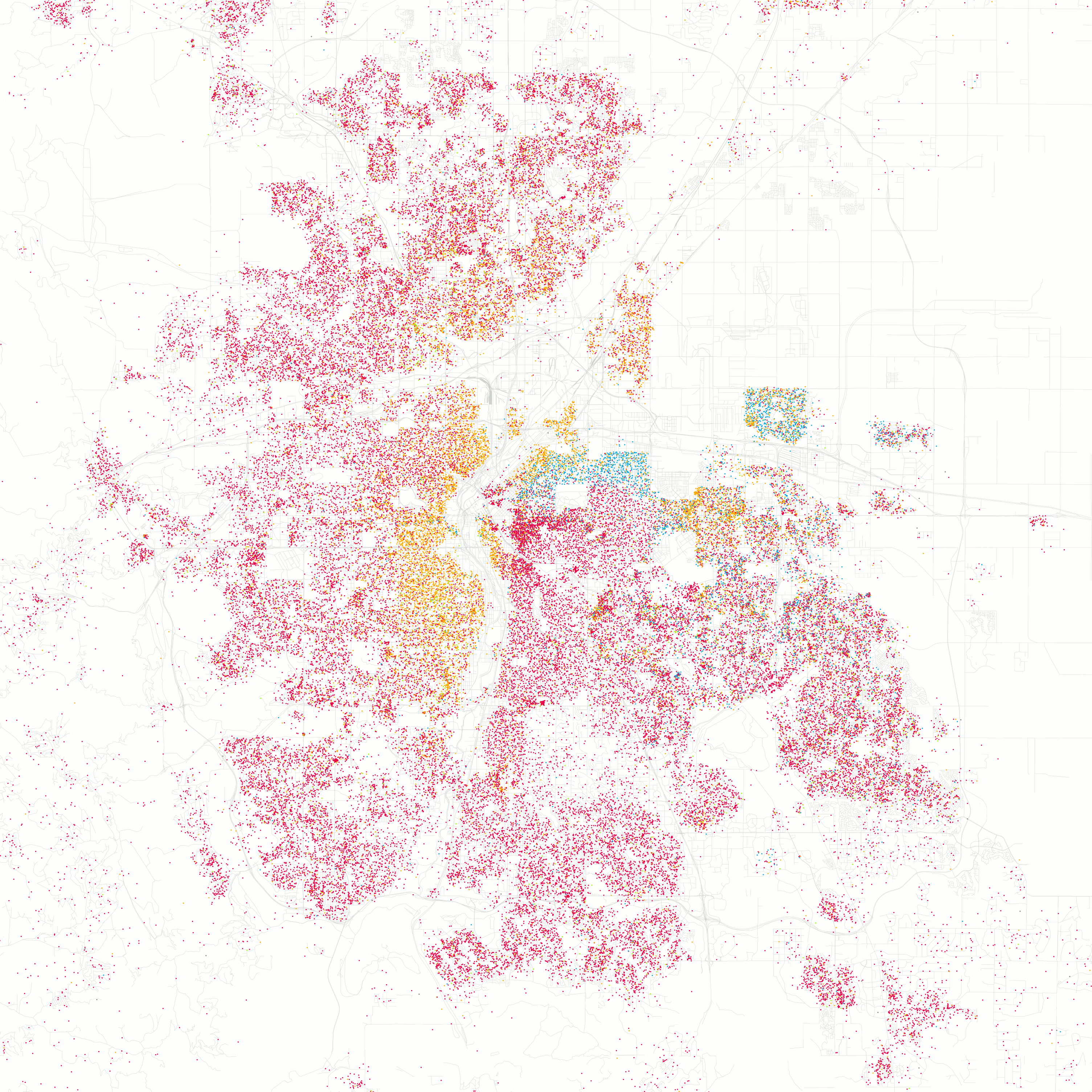 [Eric Fisher] was astounded by " Bill Rankin's map of Chicago's racial and ethnic divides and wanted to see what other cities looked like mapped the same way. To match his map, Red is White, Blue is Black, Green is Asian, Orange is Hispanic, Gray is Other, and each dot is 25 people. Data from Census 2000. Base map © OpenStreetMap, CC-BY-SA